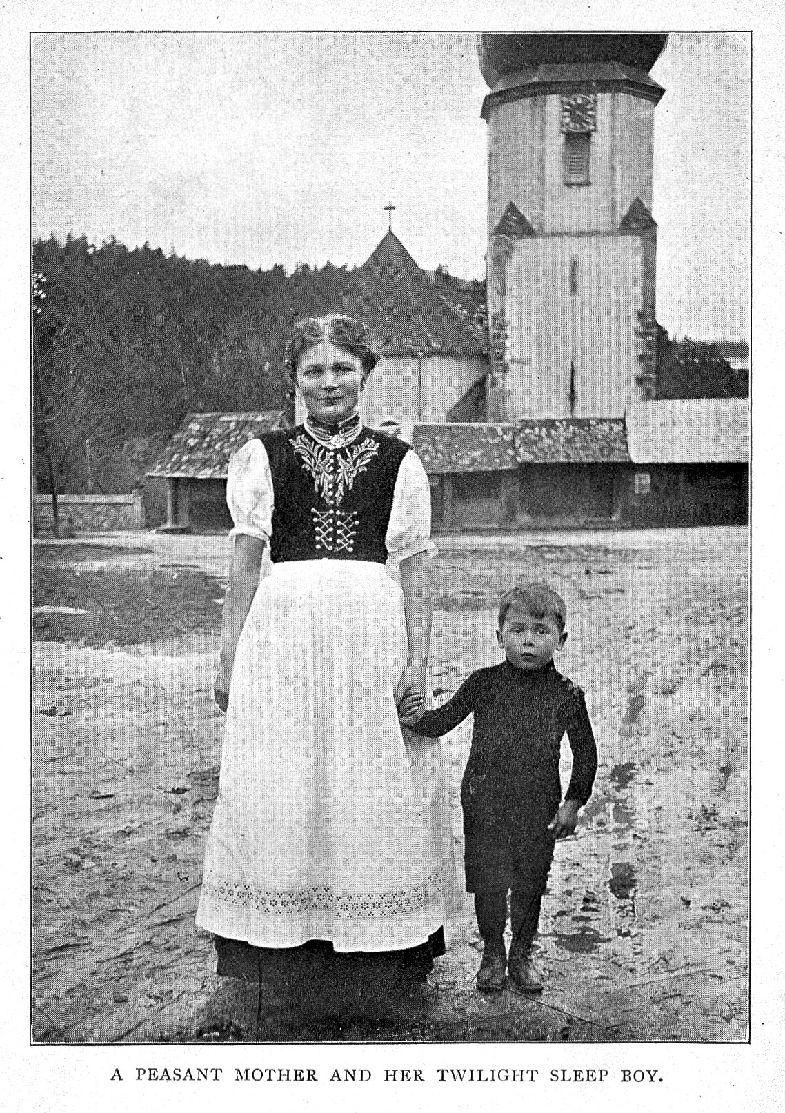 'A peasant mother and her twilight sleep boy' General Collections Keywords: Obstetrics